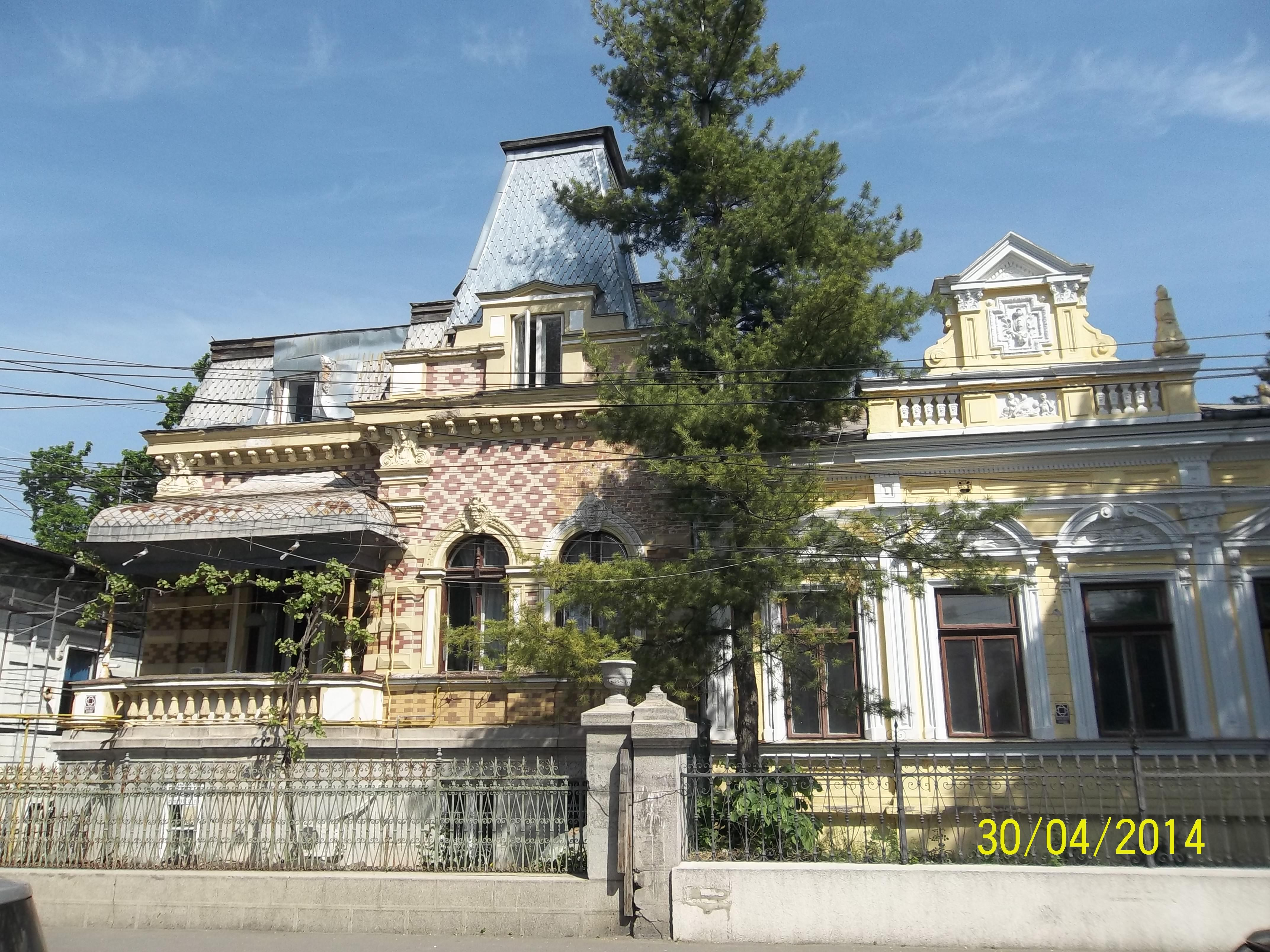 Old Building in Galati, Romania